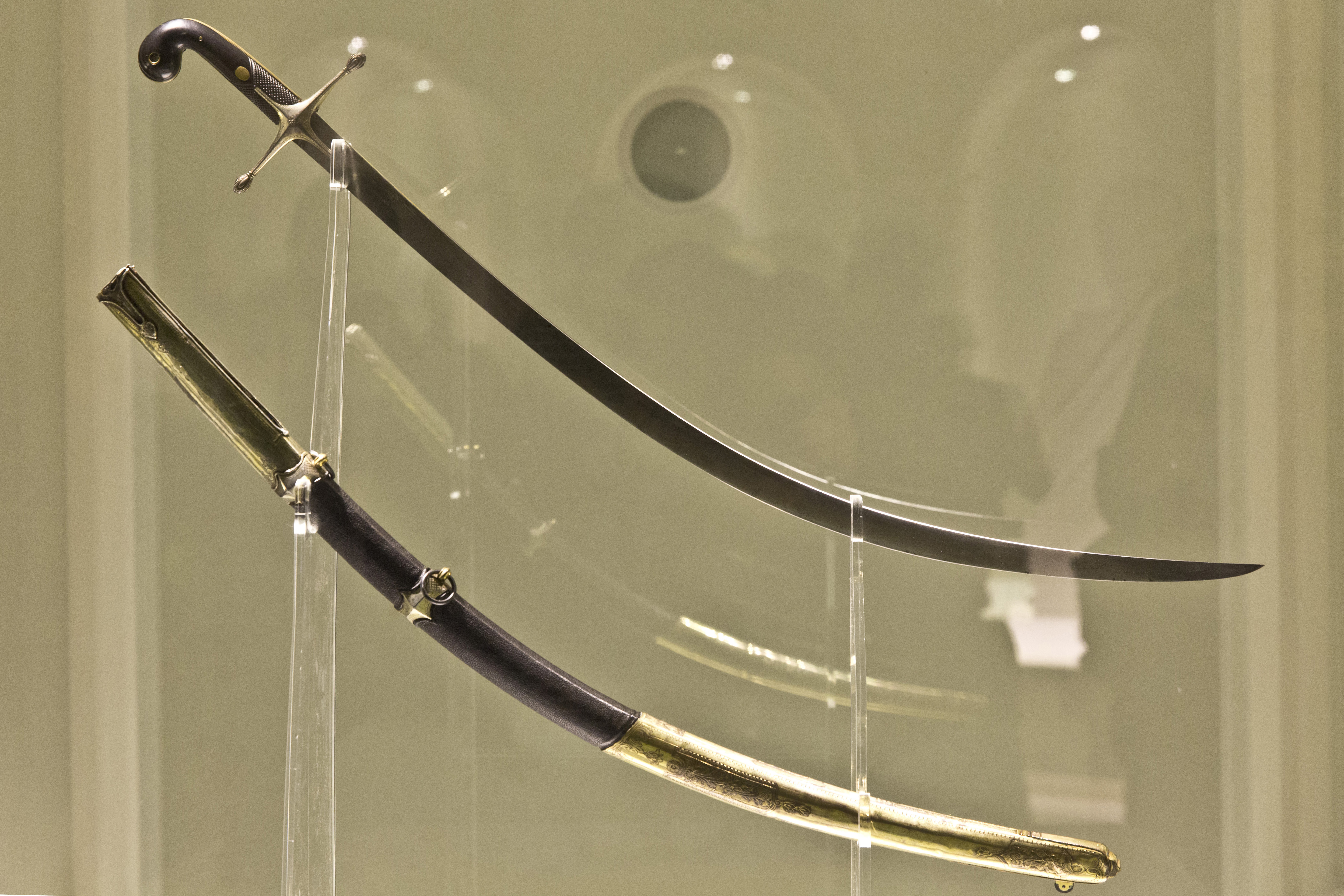 Buenos Aires, 24 de mayo de 2015 - La presidenta de la Nación, Cristina Fernández de Kirchner, encabezó el acto en el cual el Museo Histórico Nacional recibió el sable corvo de San Martín para exhibirlo al público. Acompañaron a la presidenta la ministra de Cultura de la Nación, Teresa Parodi; la directora del Museo Histórico Nacional, Araceli Bellotta ydemás funcionarios. Fotos: Romina Santarelli / Ministerio de Cultura de la Nación